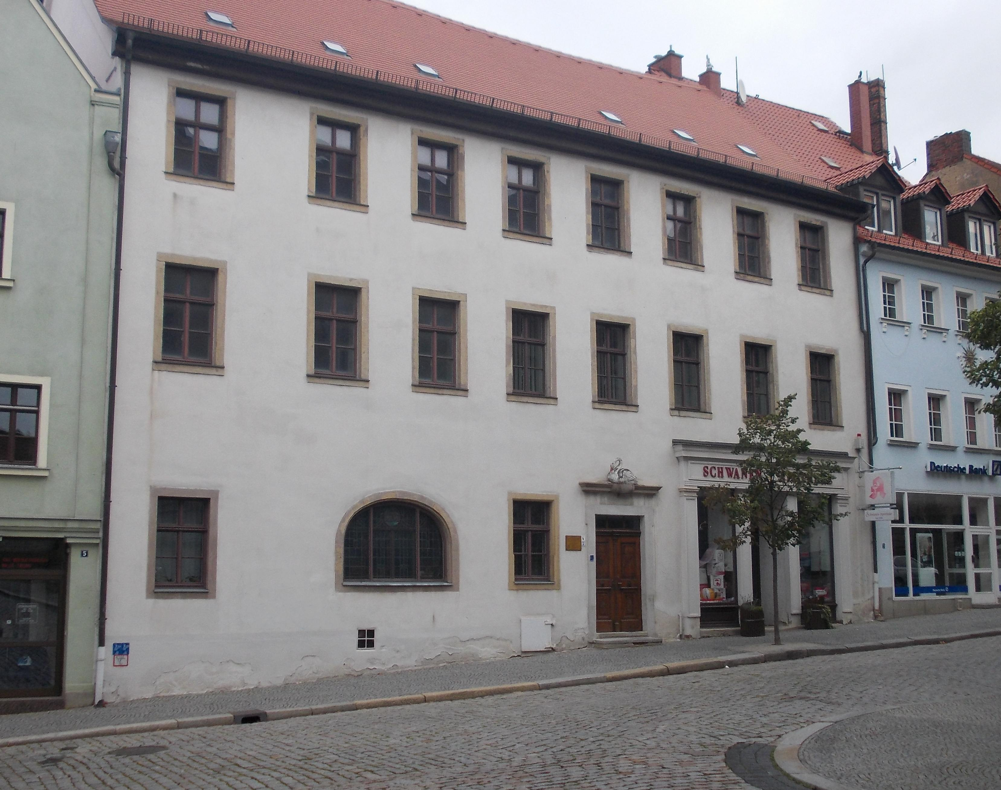 The Swan Pharmacy in Zeitz (district: Burgenlandkreis, Saxony-Anhalt)